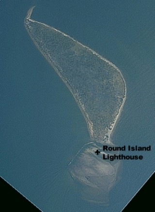 Satellite view of Round Island, 3 days after Hurricane Katrina. Round Island Lighthouse was destroyed in the storm.